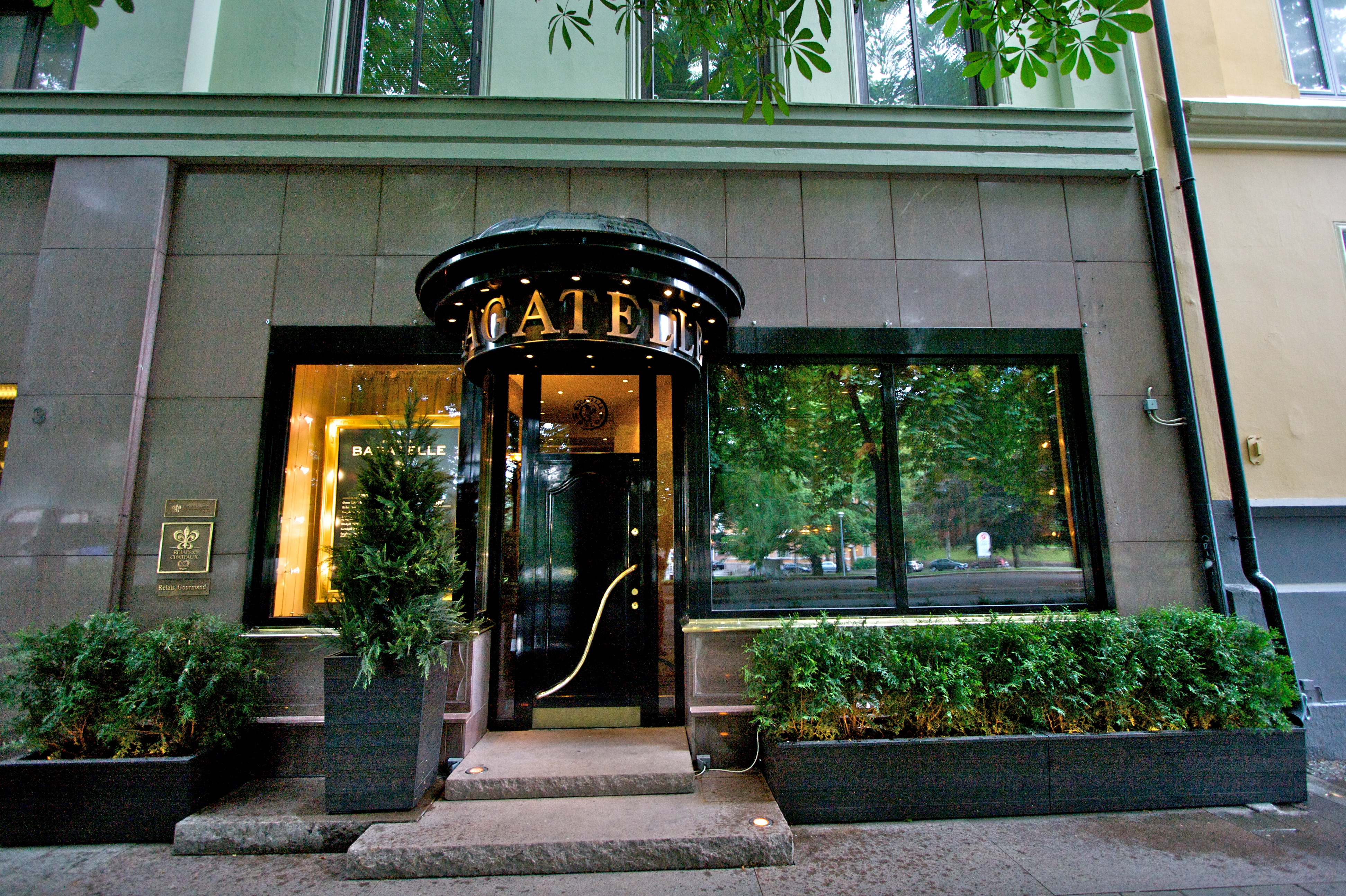 Bagatelle restaurant, Oslo, Norway.